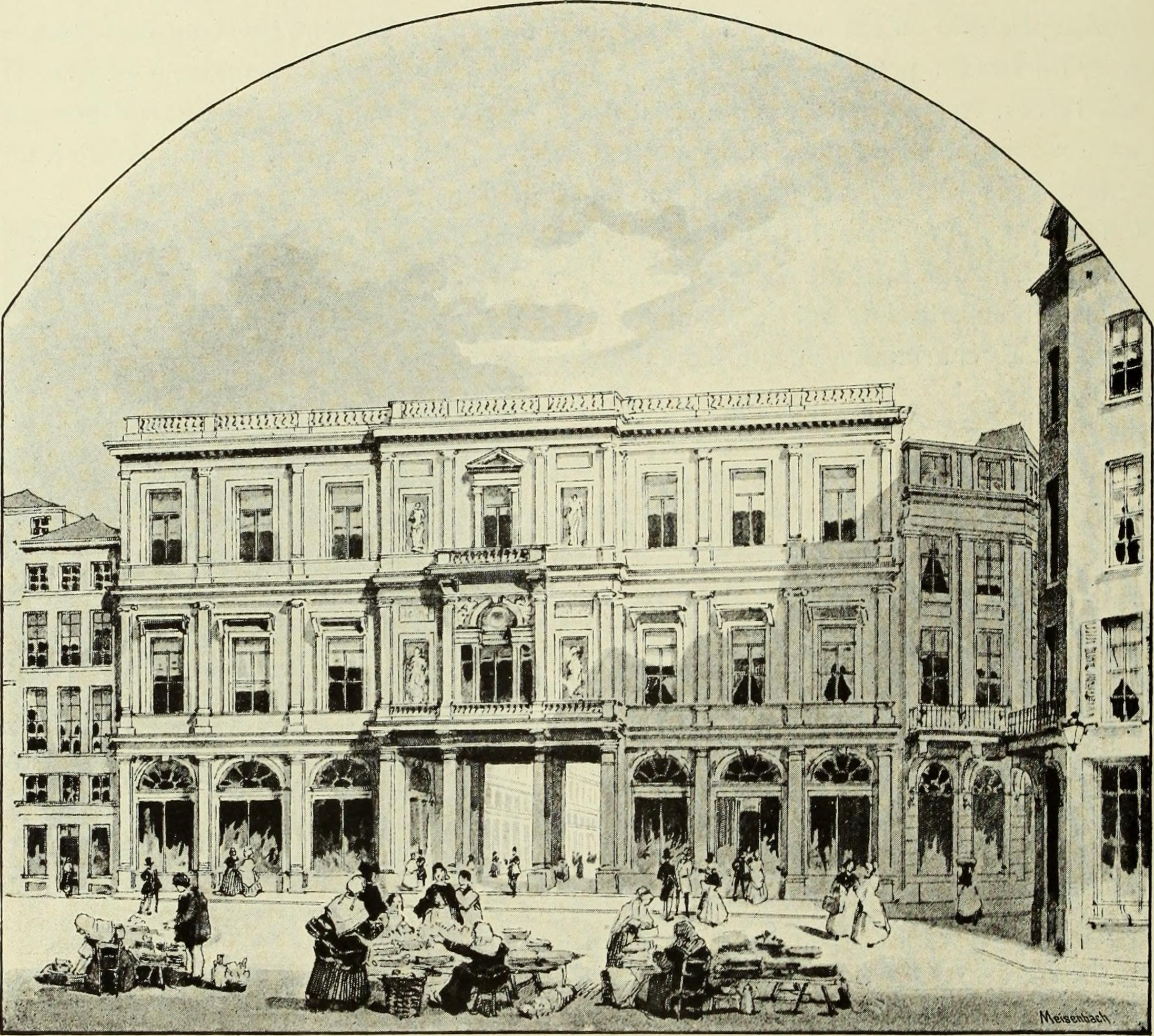 Title: Bruxelles à travers les âges Year: 1884 (1880s) Authors: Hymans, Louis Salomon, 1829-1884 Hymans, Henri, 1836-1912 Hymans, Paul, 1865-1941 Subjects: Publisher: Bruxelles : Bruylant-Christophe Text Appearing Before Image: J.-P. Cluysenaar (1811-1880),larchitecte des Galeries Saint-Hubert et du Marchéde la Madeleine.Dessin de Tichon, daprès une photographie. 268 BRUXELLES MODERNE. (8 novembre 1616) (1). Au commencement du siècle présent, laspect de cette fontaineétait dune simplicité presque grossière; six jets deau sélançaient des bouches debronze de satyres grimaçants. De là son nom de fontaine des Satyres. Autrefois son Text Appearing After Image: Les Galeries Saint-Hubert. — Façade du côté du Marché-aux-Herbes.Daprès la lithographie de Borremans. ornementation était plus riche. Une statue dorée représentant Saint-Michel lasurmontait et leau sépandait dans deux larges cuves de pierre.Ladministration communale la fit démolir en 1847. Cest cette même année, le Ier juillet, que les galeries Saint-Hubert furentouvertes au public. La première pierre en avait été posée le 6 mai 1846 par le roi. (1) La Belgique communale, 1847.